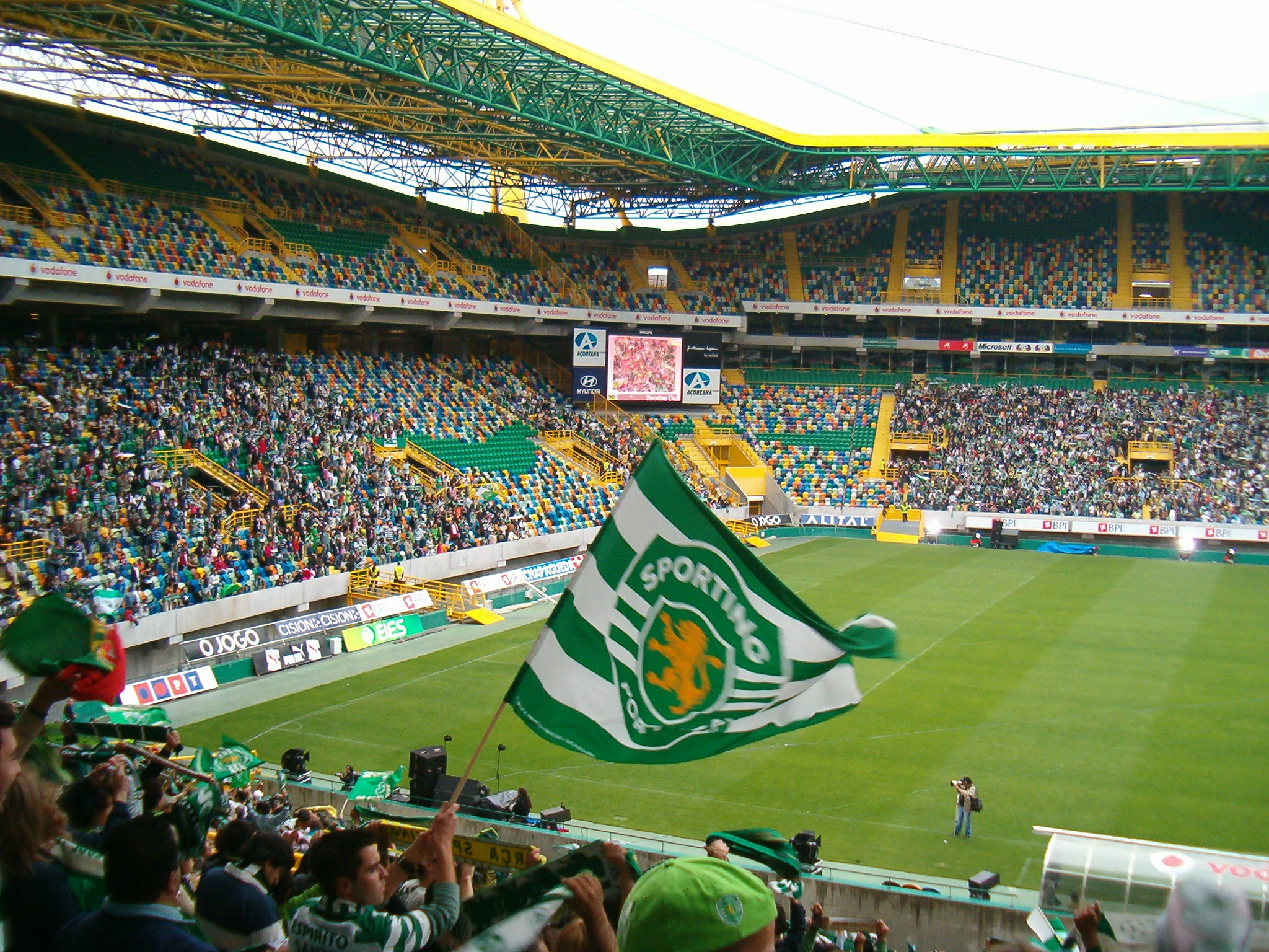 Estádio Alvalade XXI